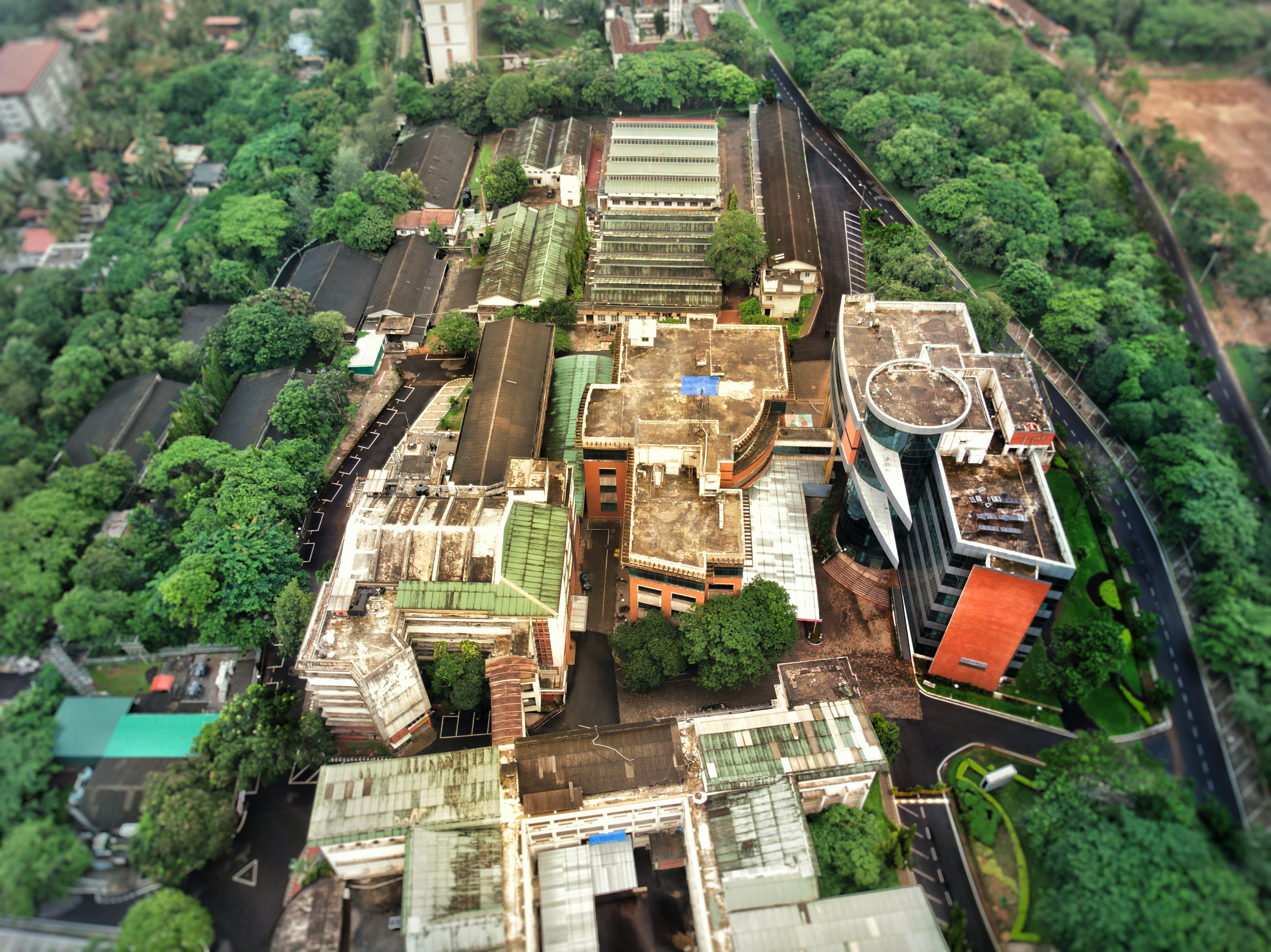 Aerial view of MIT Manipal campus.